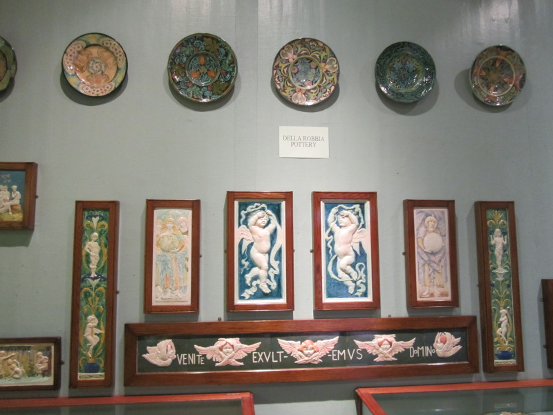 Selection of Della Robbia Pottery at the Williamson Art Gallery and Museum, Birkenhead, Merseyside, England.